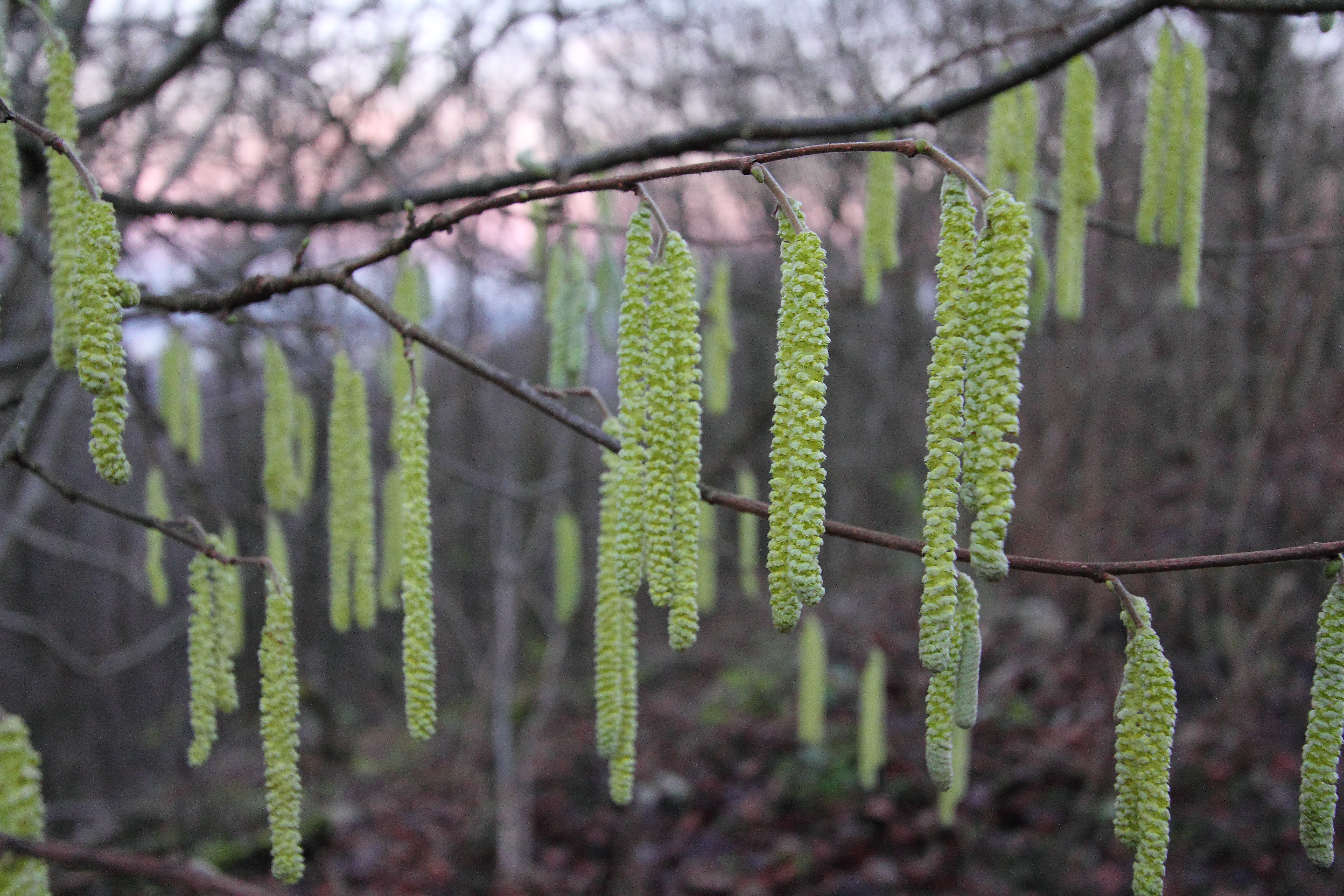 Young male catkins of hazel (Corylus avellana). Note the proximal to distal maturation of the inflorescence.